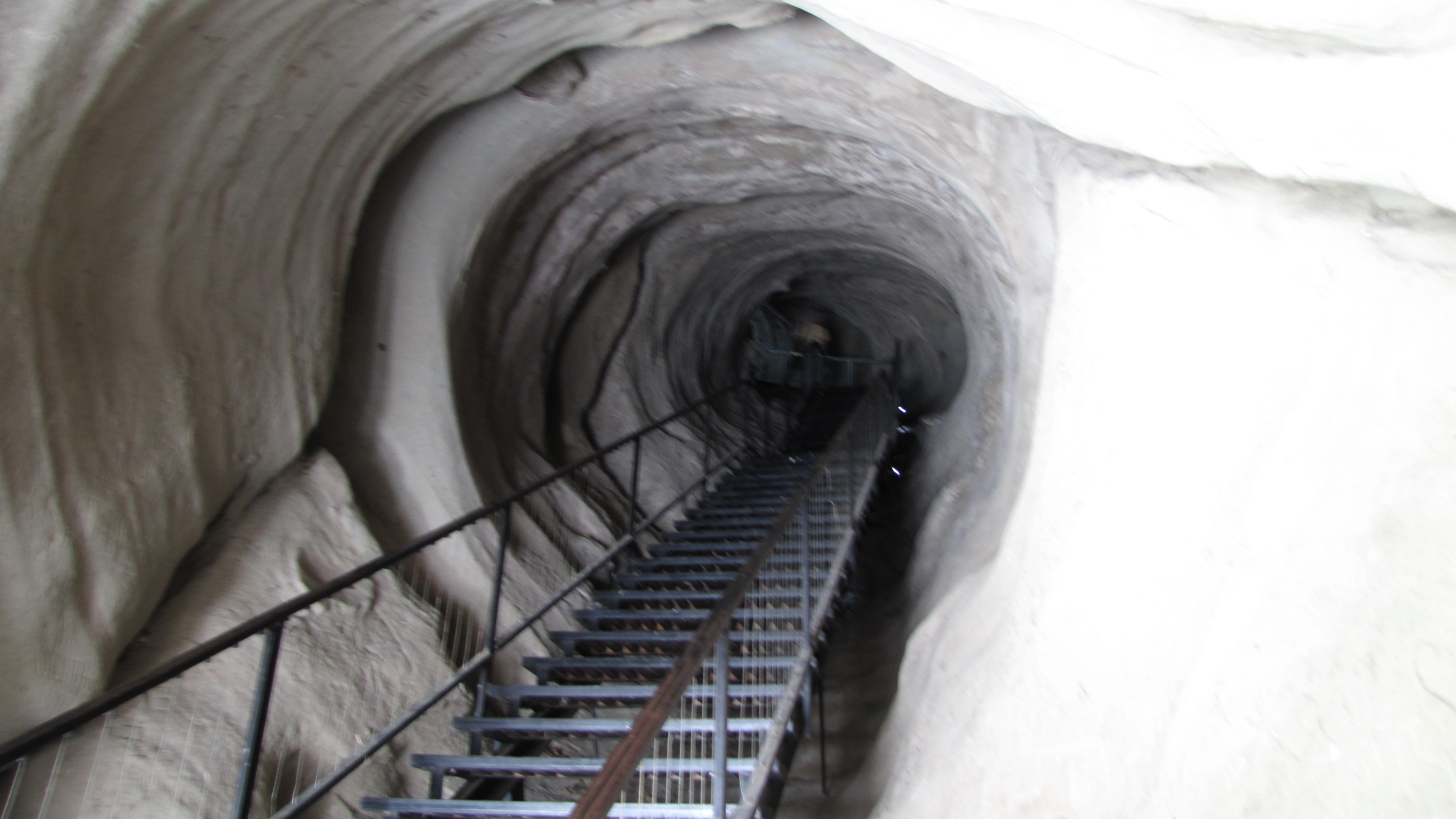 Uplistsikhe secret tunnel